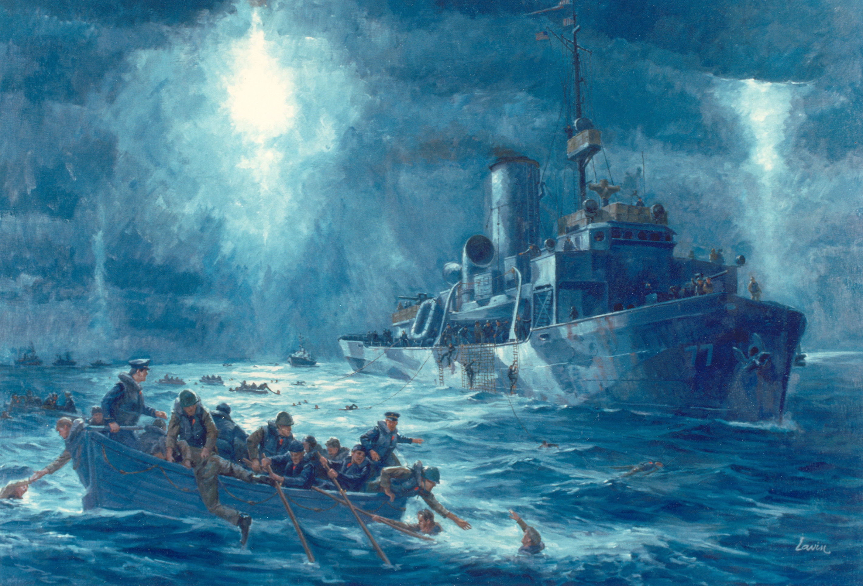 Painting of the rescue of USAT Dorchester survivors by USCGC Escanaba (WPG-77) on 3 February 1943 in the North Atlantic Ocean.